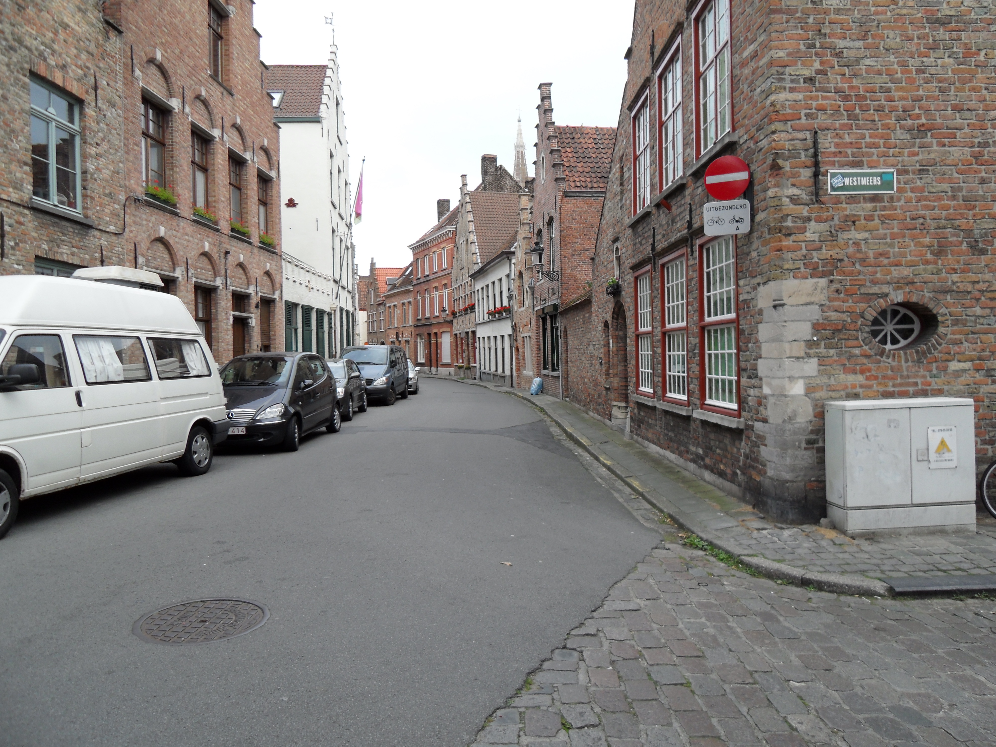 Korte Vuldersstraat in Bruges